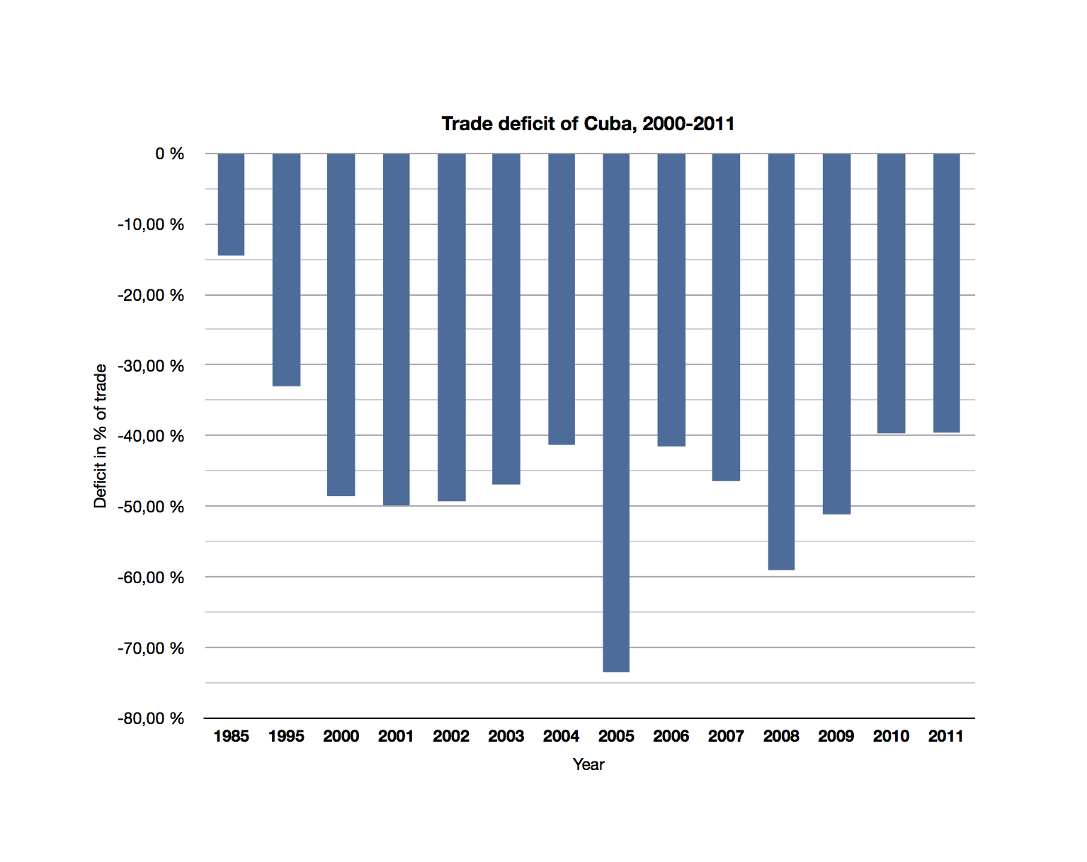 Trade deficit of Cuba, 2000-2011. Source: ONE.